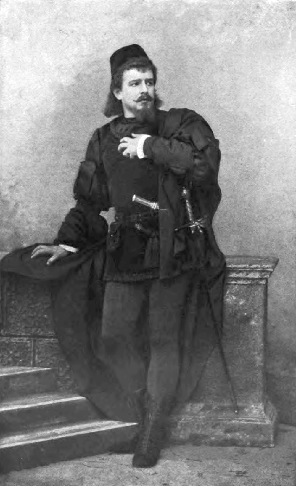 Tenor Jean de Reszke as Romeo in Gounod's opera Roméo et Juliette, as presented by the Paris Opera on 28 November 1888 in its first performance at the Palais Garnier